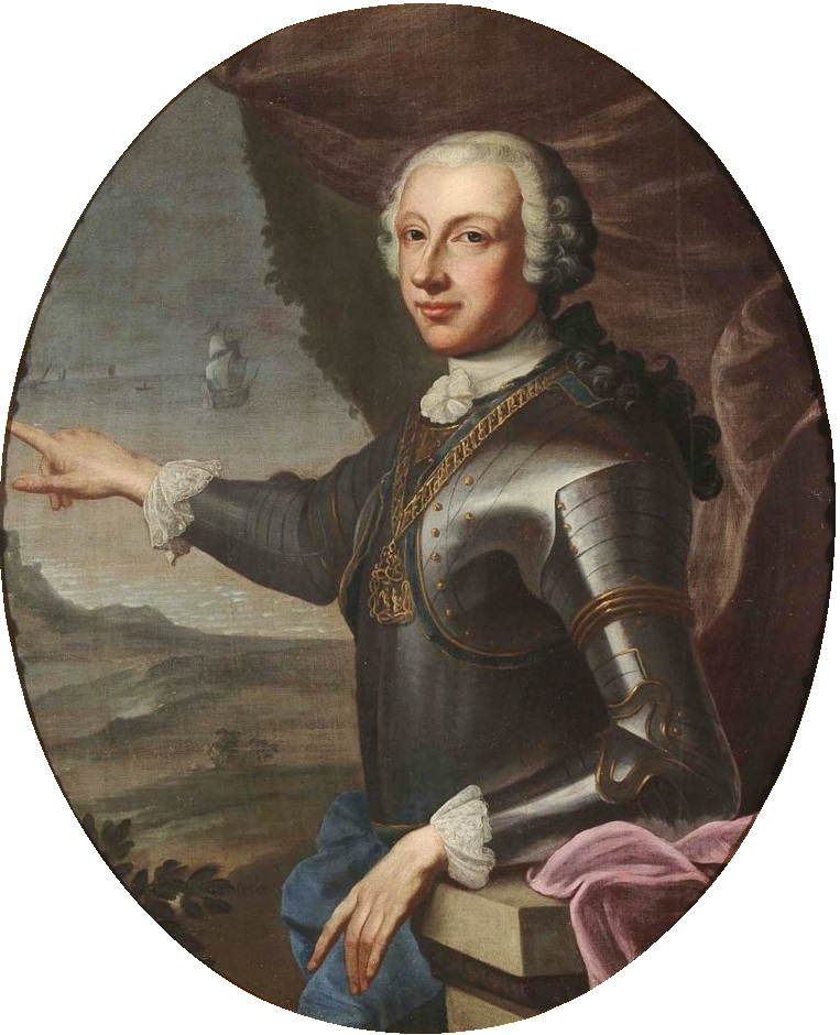 Portrait of a Knight of the Order of the Most Holy Annunciation in armour, probably Victor Amadeus III of Sardinia (1726-1796)